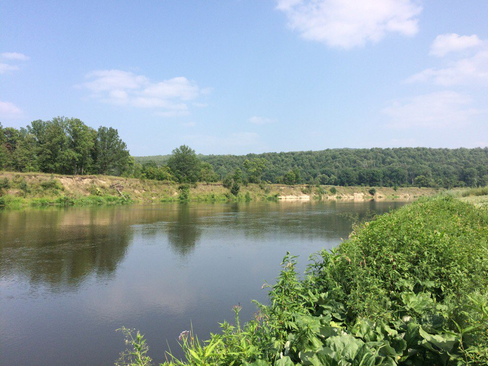 Sura river near the village of Kachelay, Kochkurovsky District Mordovia. Russia